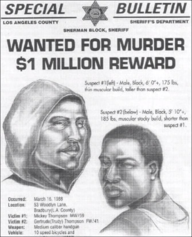 Mickey Thompson murderers sketch, LASD